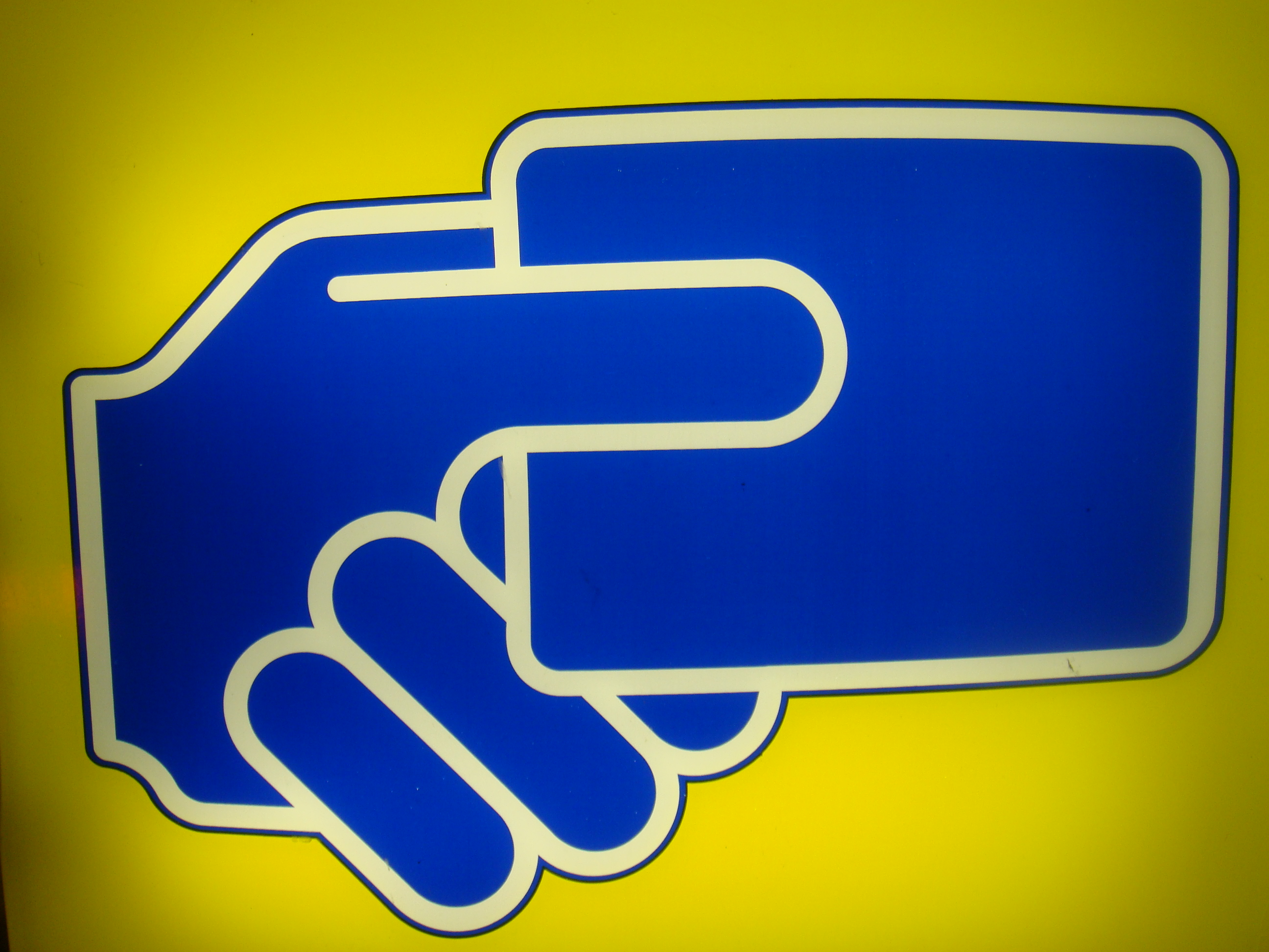 ancien logo D.A.B de La Banque Postale